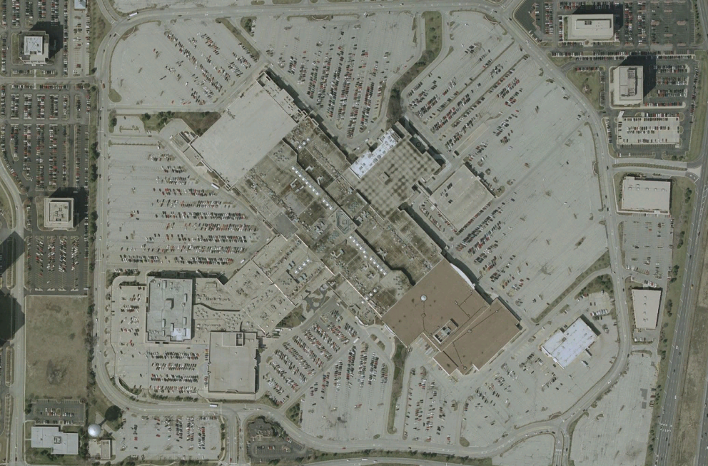 Woodfield Mall. Satellite view.